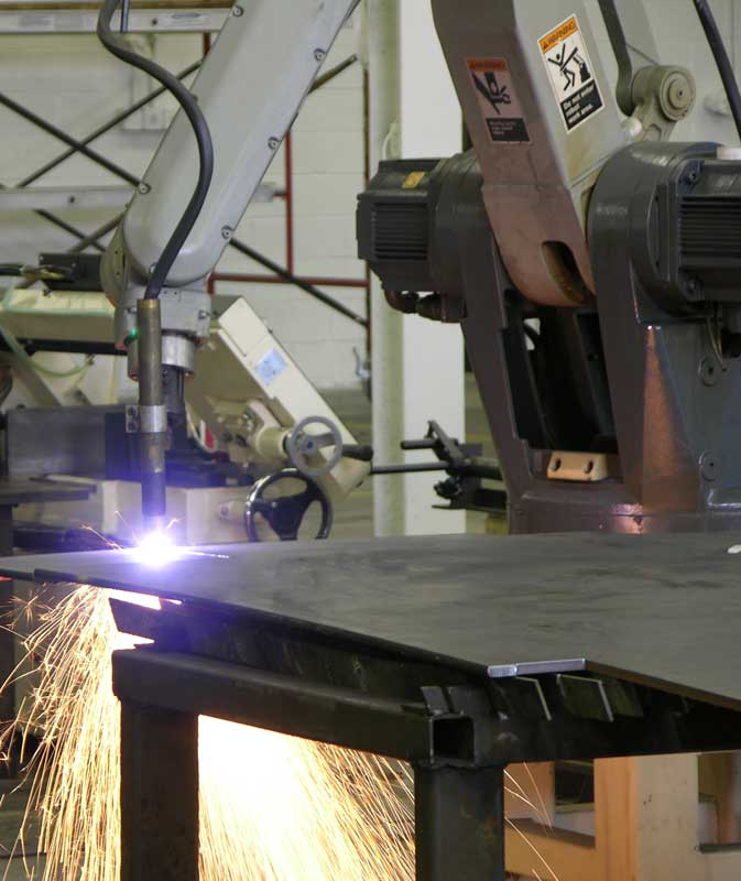 This Motoman robot is performing a plasma cutting application. Industrial Motoman Robots